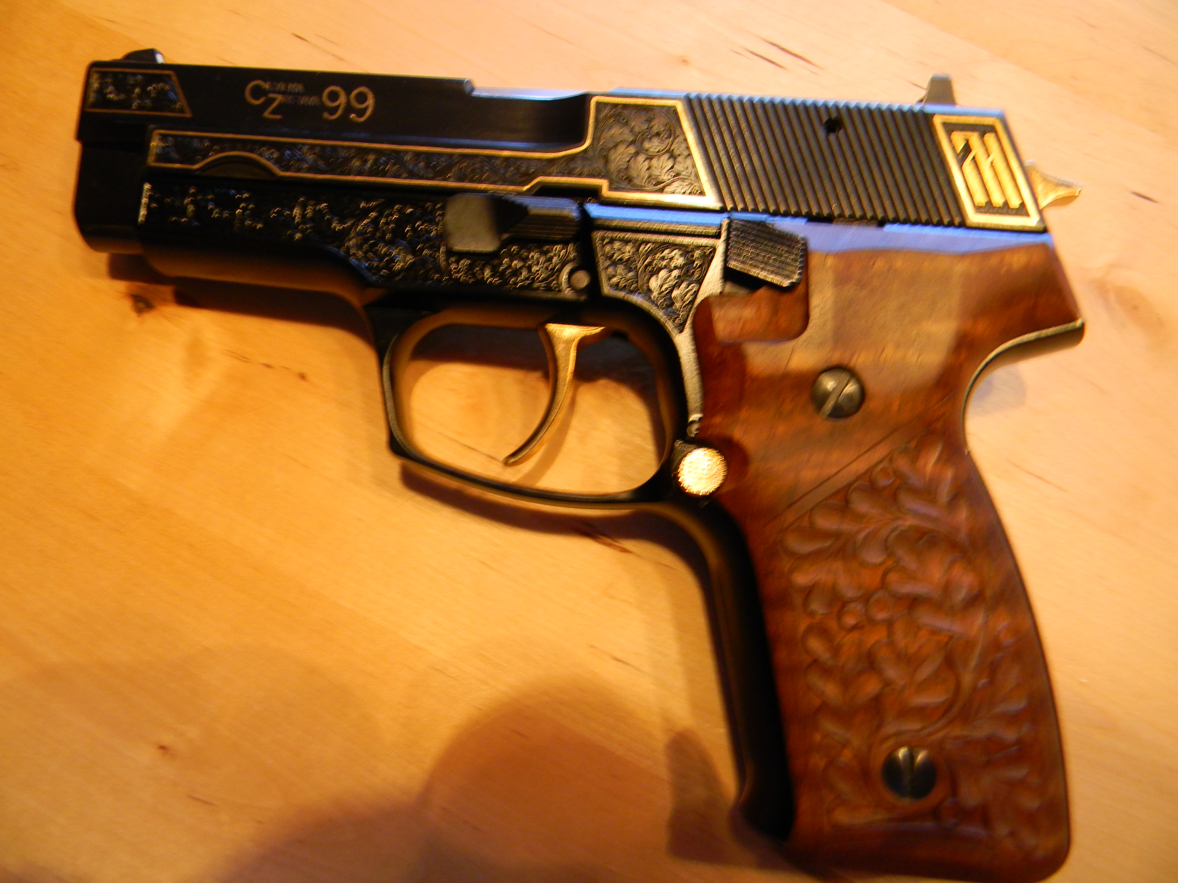 Zastava CZ99